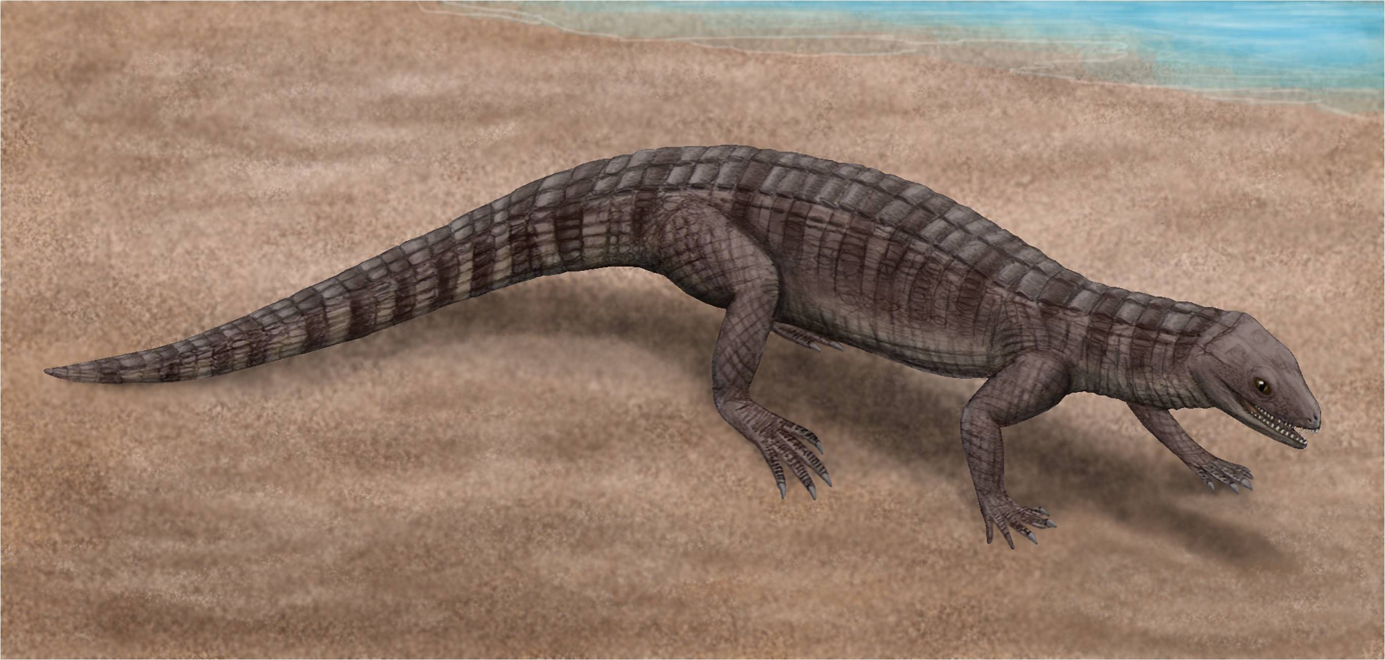 Life restoration of Montsecosuchus depereti. Based on figures 2 and 11 of "Montsecosuchus depereti (Crocodylomorpha, Atoposauridae), new denomination for Alligatorium depereti Vidal, 1915 (Early Cretaceous, Spain): Redescription and phylogenetic relationships" by A. D. Buscalioni and J. L. Sans Journal of Vertebrate Paleontology 10(2):244-254.